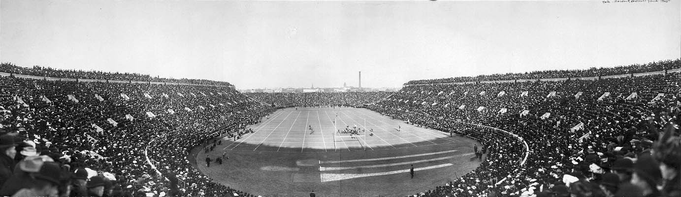 Harvard-Yale Game of 1905